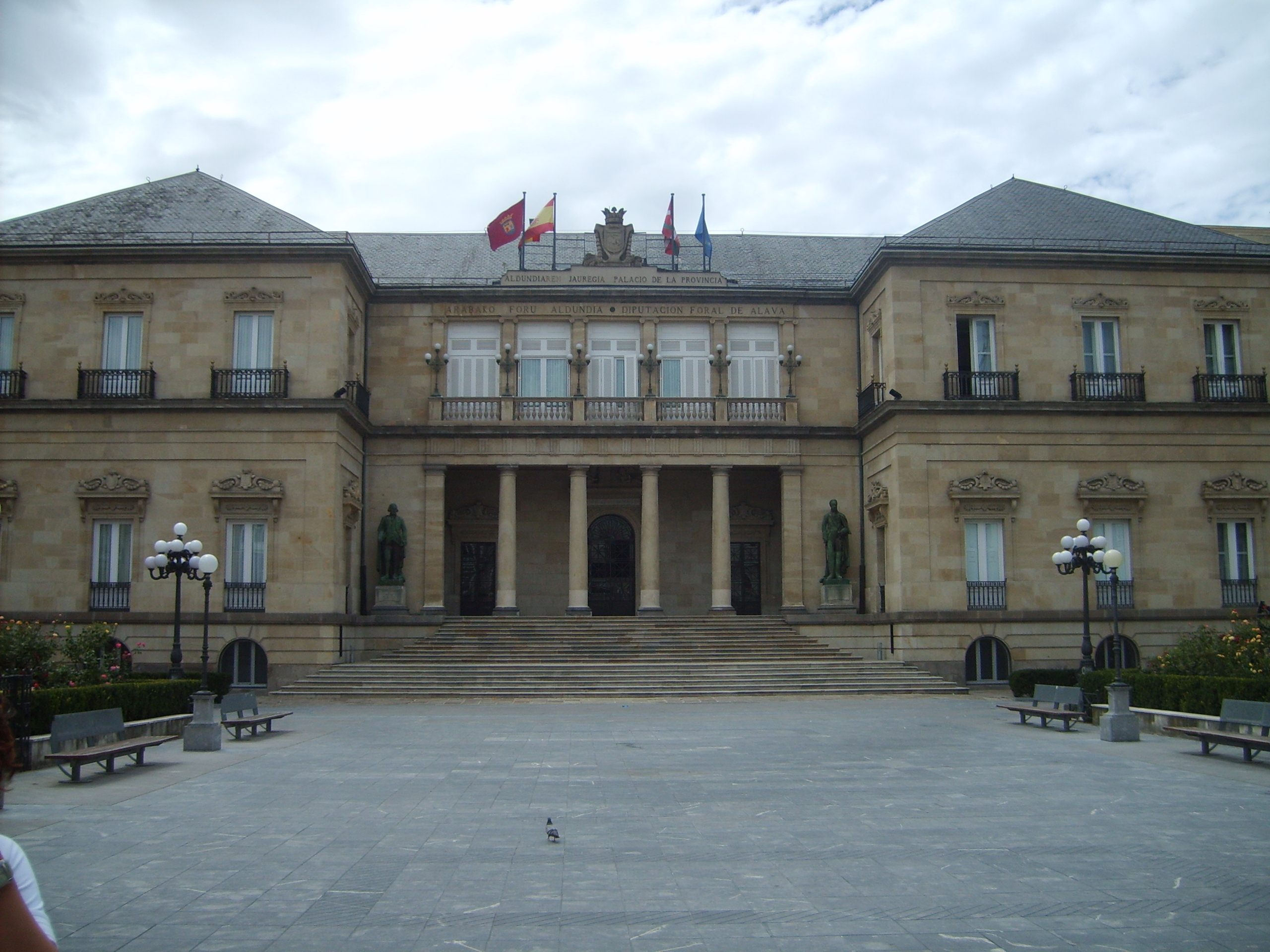 Diputación Foral de Álava hall.